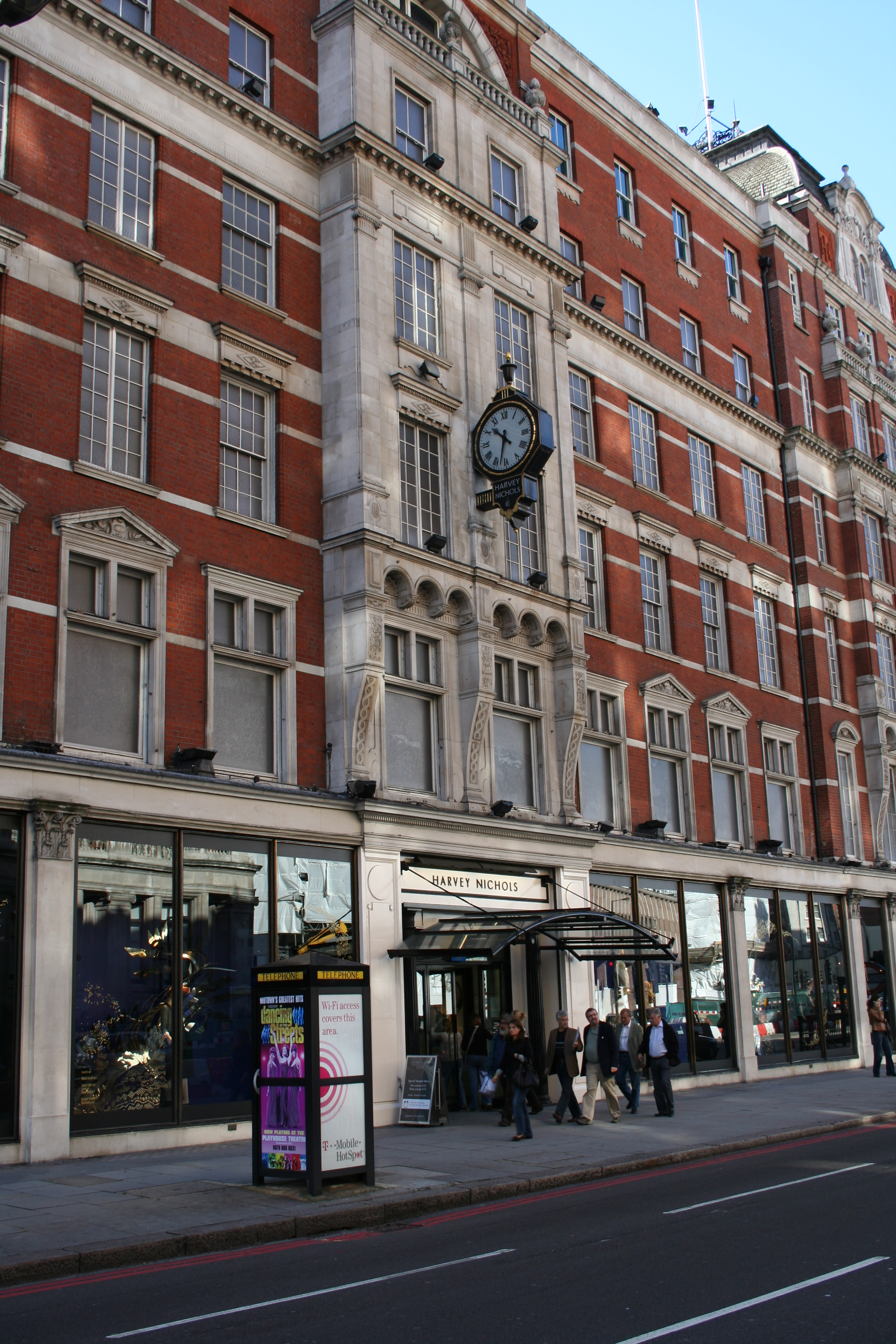 A view of Harvey Nichols in London